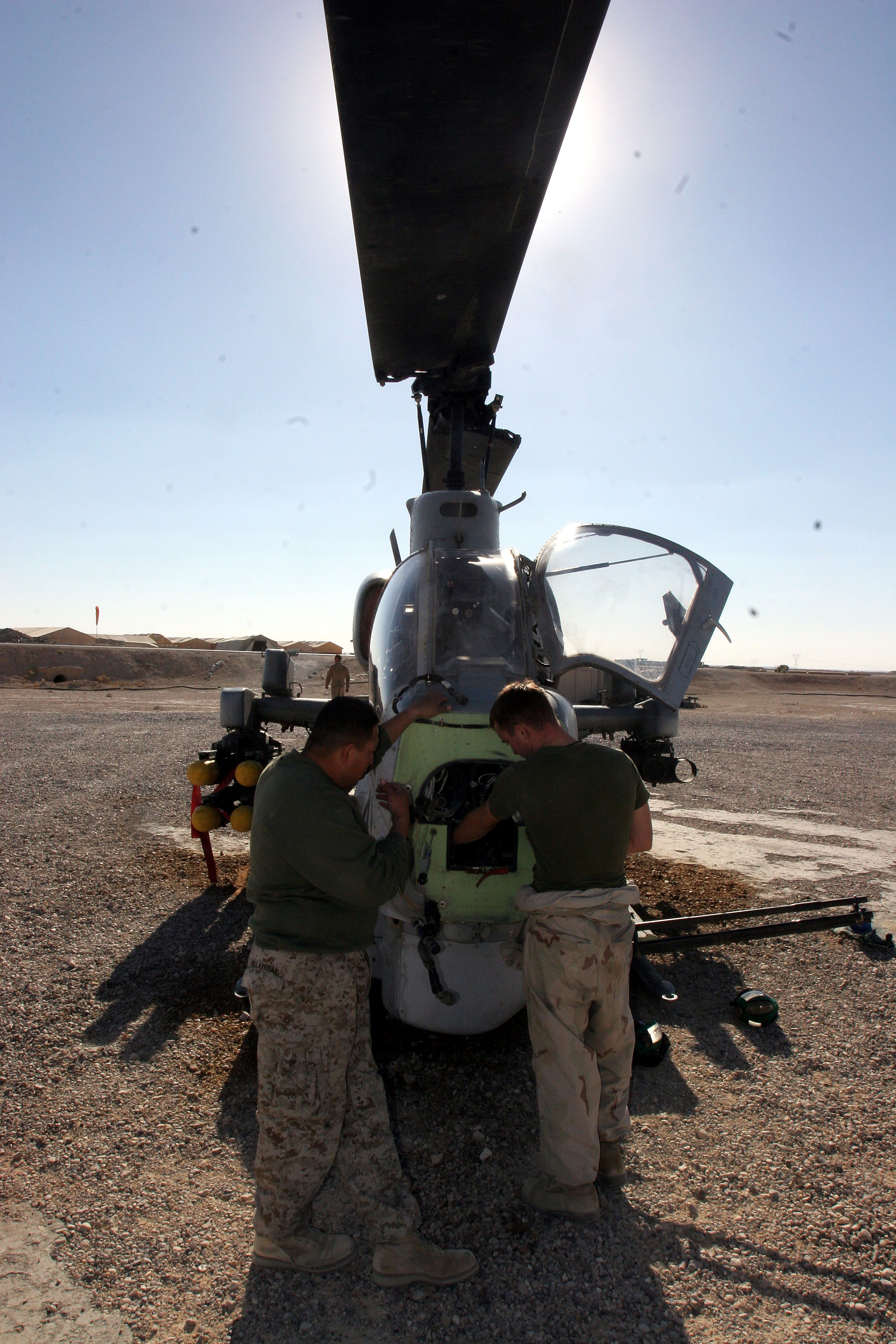 Submitted by: 2nd Marine Aircraft Wing Operation/Exercise/Event: Event Caption: Sergeants Abel Villarreal and Chris Mergen work on an AH-1 Cobra helicopter to remove the helicopters infrared guidance system so they can replace it. The system is key to the Cobra’s ability to accurately hit targets. The maintenance Marines from the Camp Al Qaim detachment of Marine Light Attack Helicopter Squadron 369 replaced the large part in a few hours.